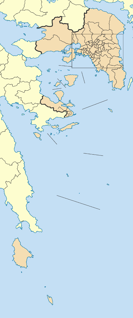 Map for region Attica (2011)